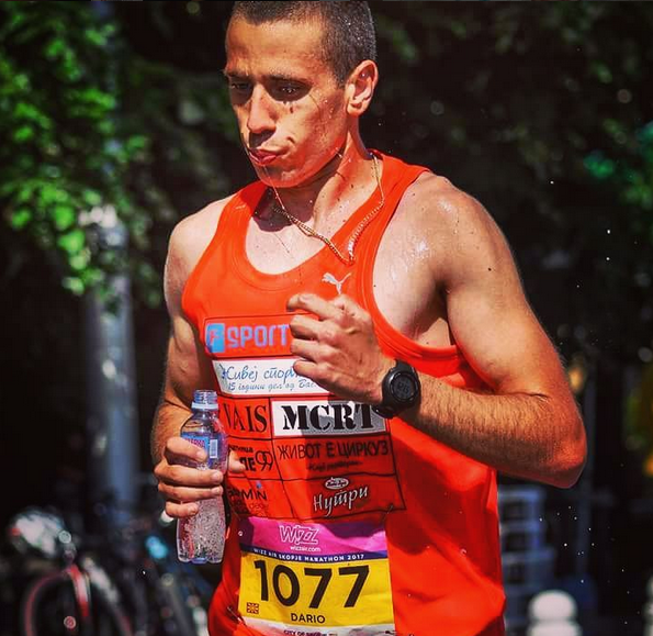 Dario at the Skopje Marathon running on streets of Skopje